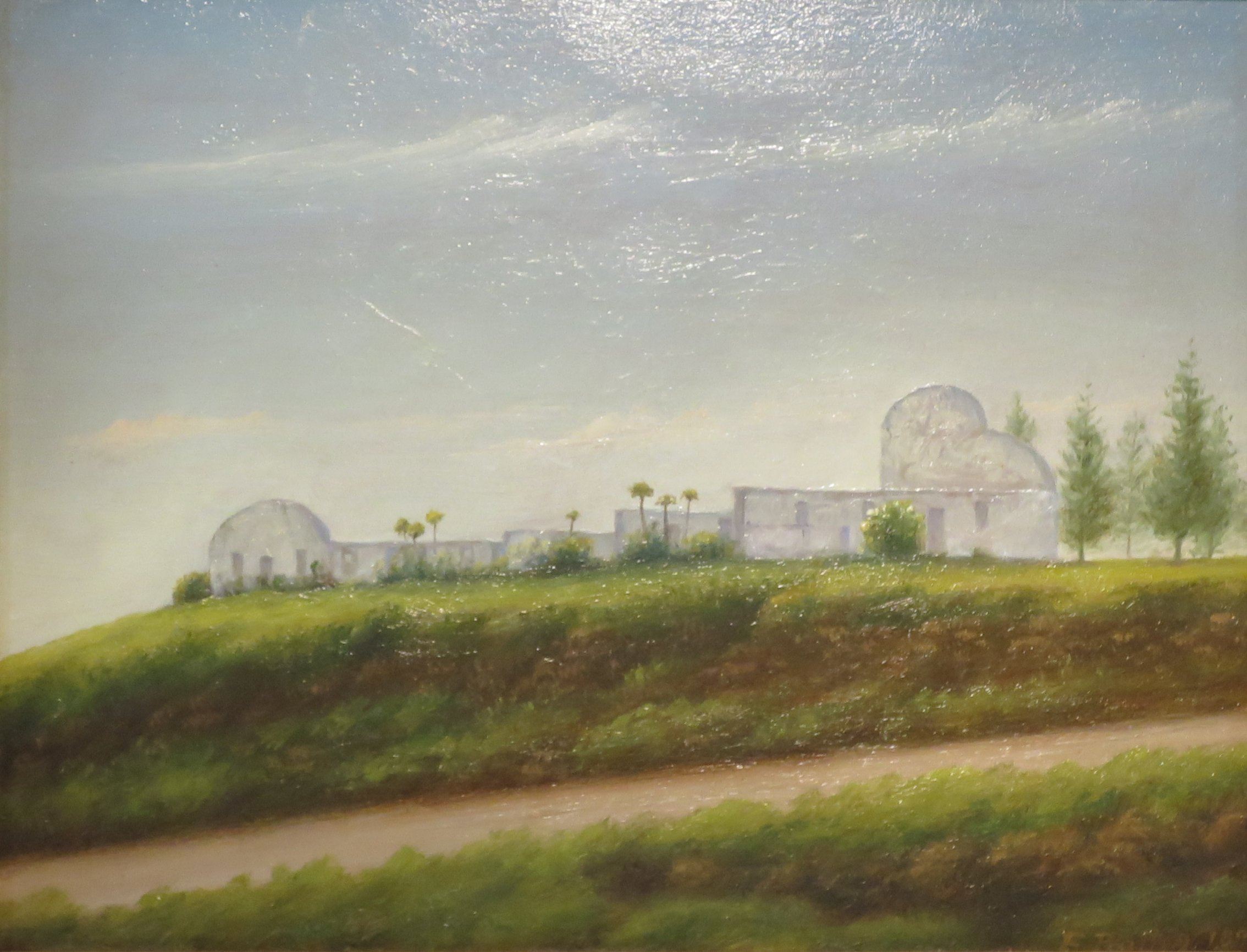 English